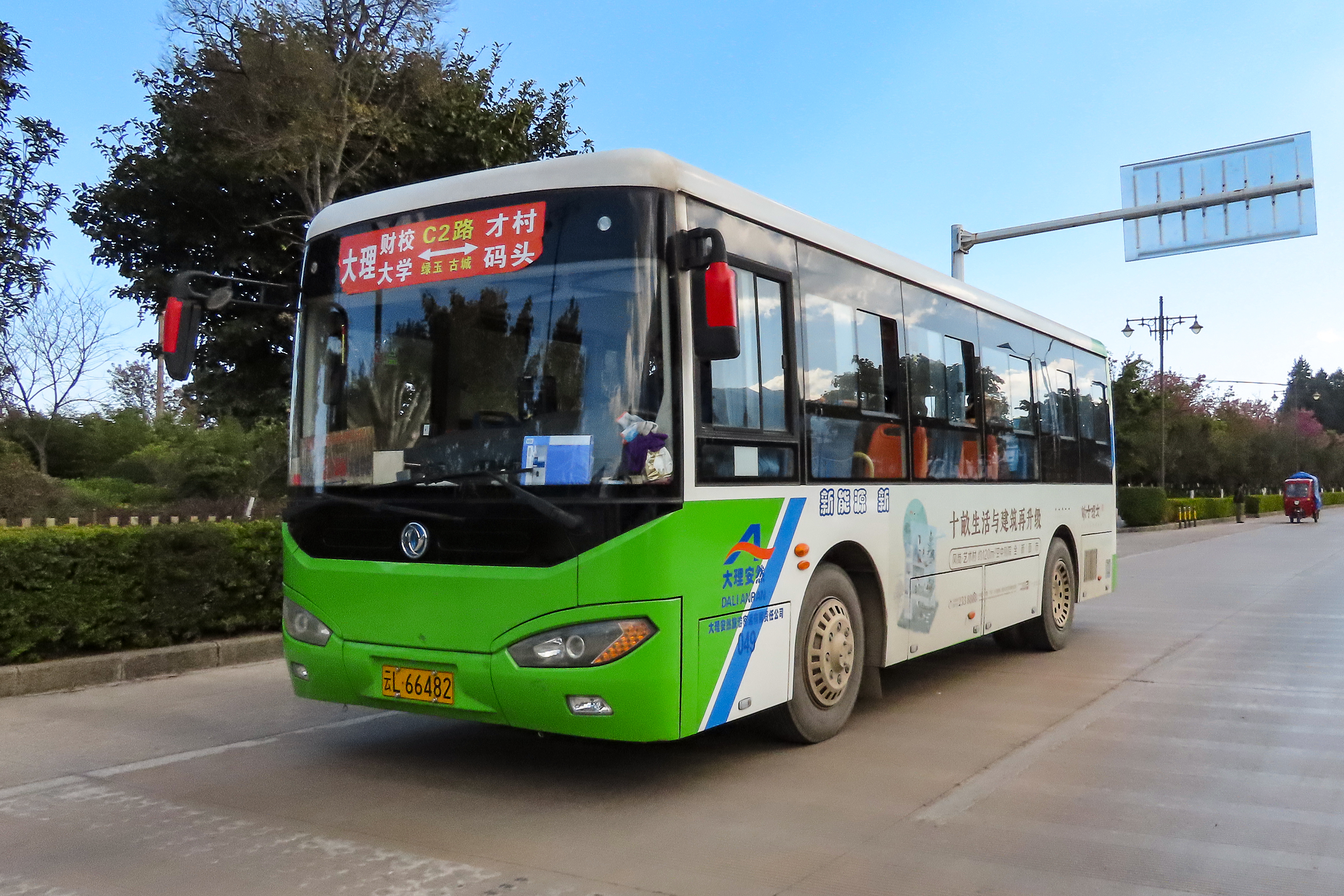 Route C2 from Dali Financial School to Caicun Pier.